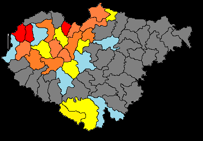 Hungarian minority in Sălaj County (Romania), according to the 2011 census, by communes (red = hungarian majority over 80%, orange = hungarian majority between 50 - 70%, yellow = hungarian minority over 20%, blue = hungarian minority between 10 - 20%, grey = hungarian minority under 10%).